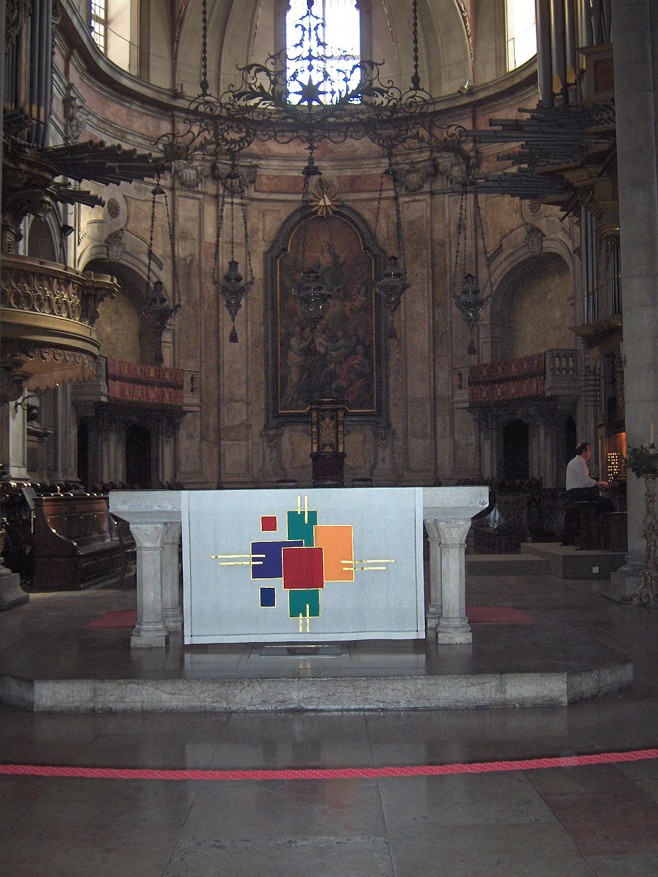 Main altar and choir of the Cathedral of Lisbon, Portugal